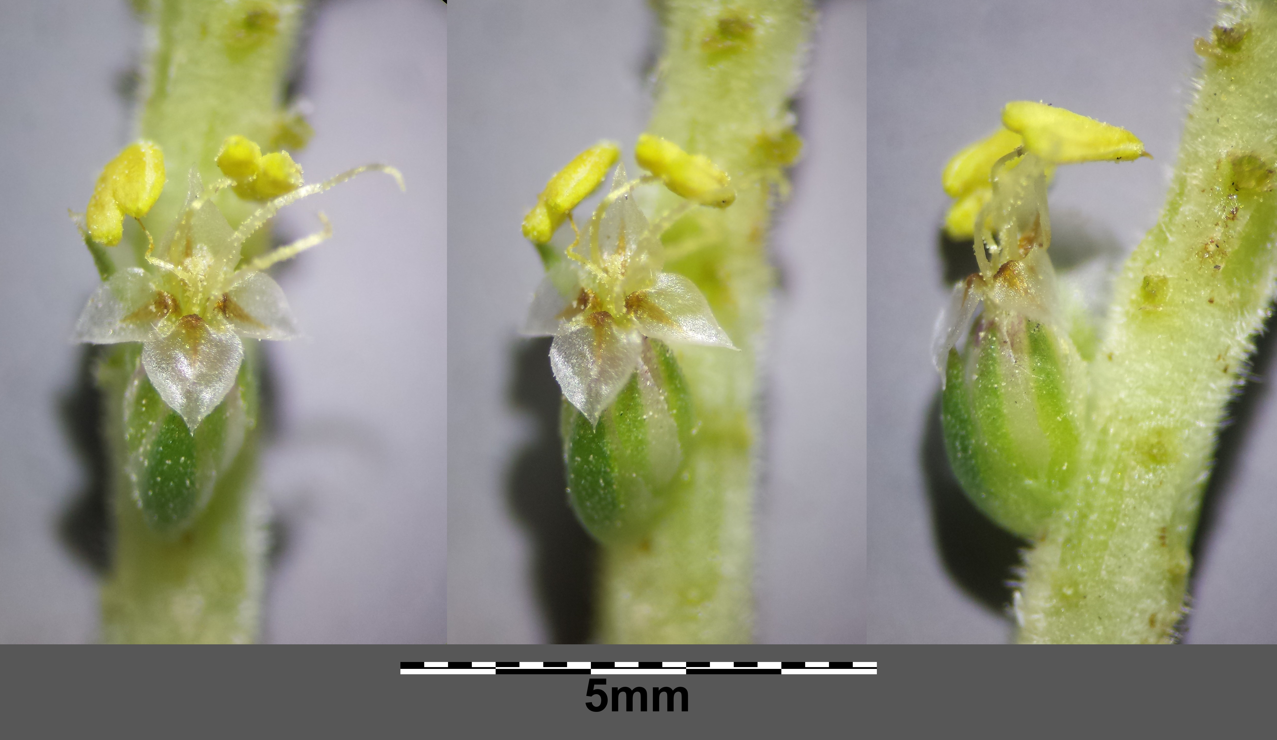 Flower Taxonym: Plantago maritima ss Fischer et al. EfÖLS 2008 ISBN 978-3-85474-187-9 Location: next to Ziersdorf, district Hollabrunn, Lower Austria - ca. 225 m a.s.l. Habitat: salty verge